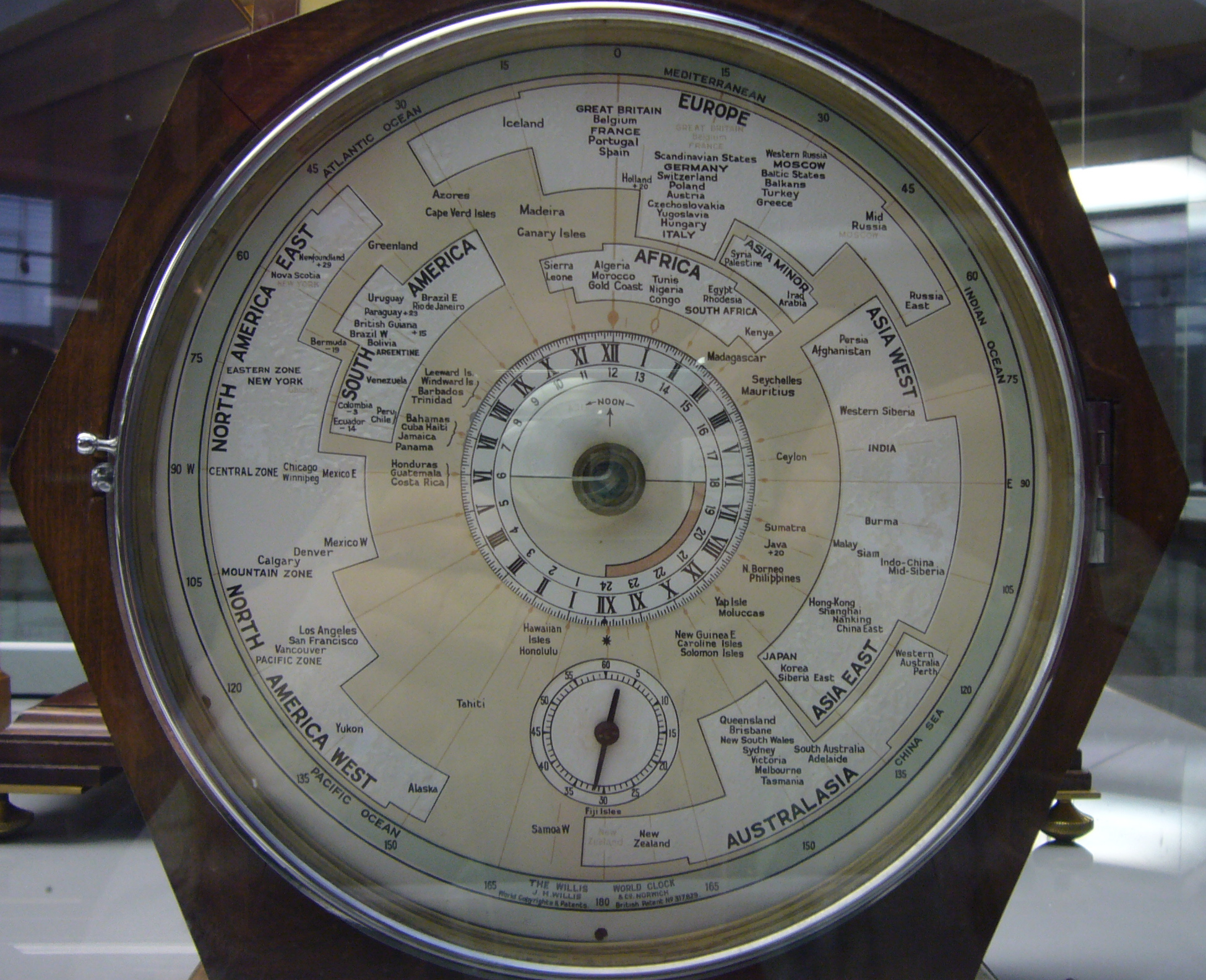 The Willis World Clock, in the London Science Museum. Showing a stylized map of the world, helping to indicate the time in different time zones.